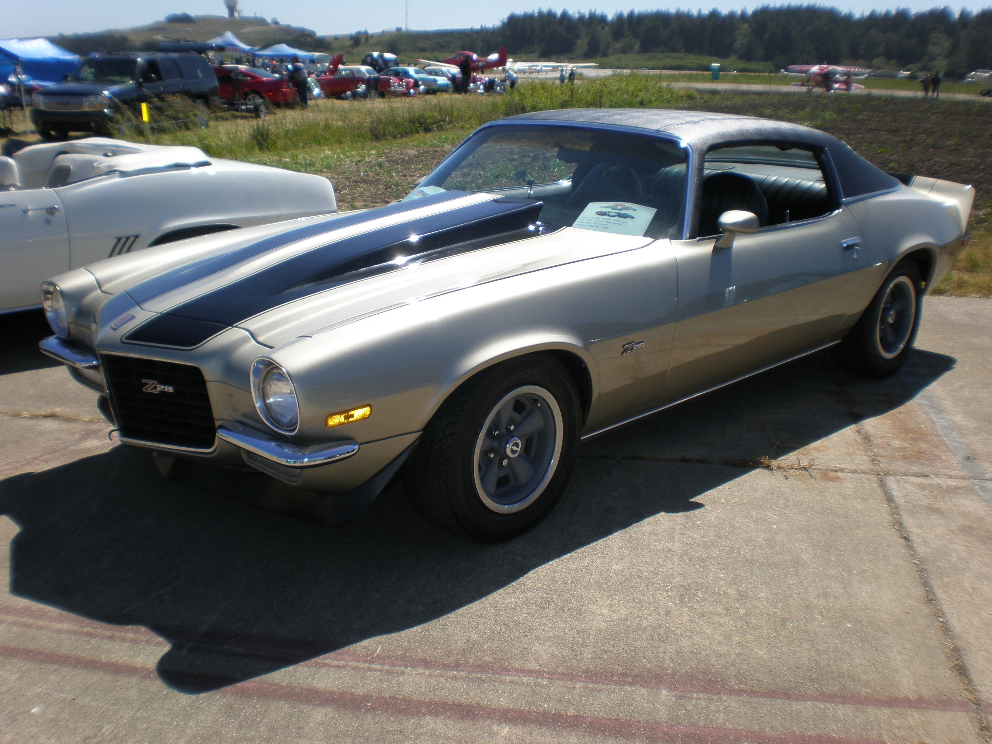 A 1973 Chevrolet Camaro Z28 with 350 engine at the Pacific Coast Dream Machines vehicle show at the Half Moon Bay Airport in Half Moon Bay, California.